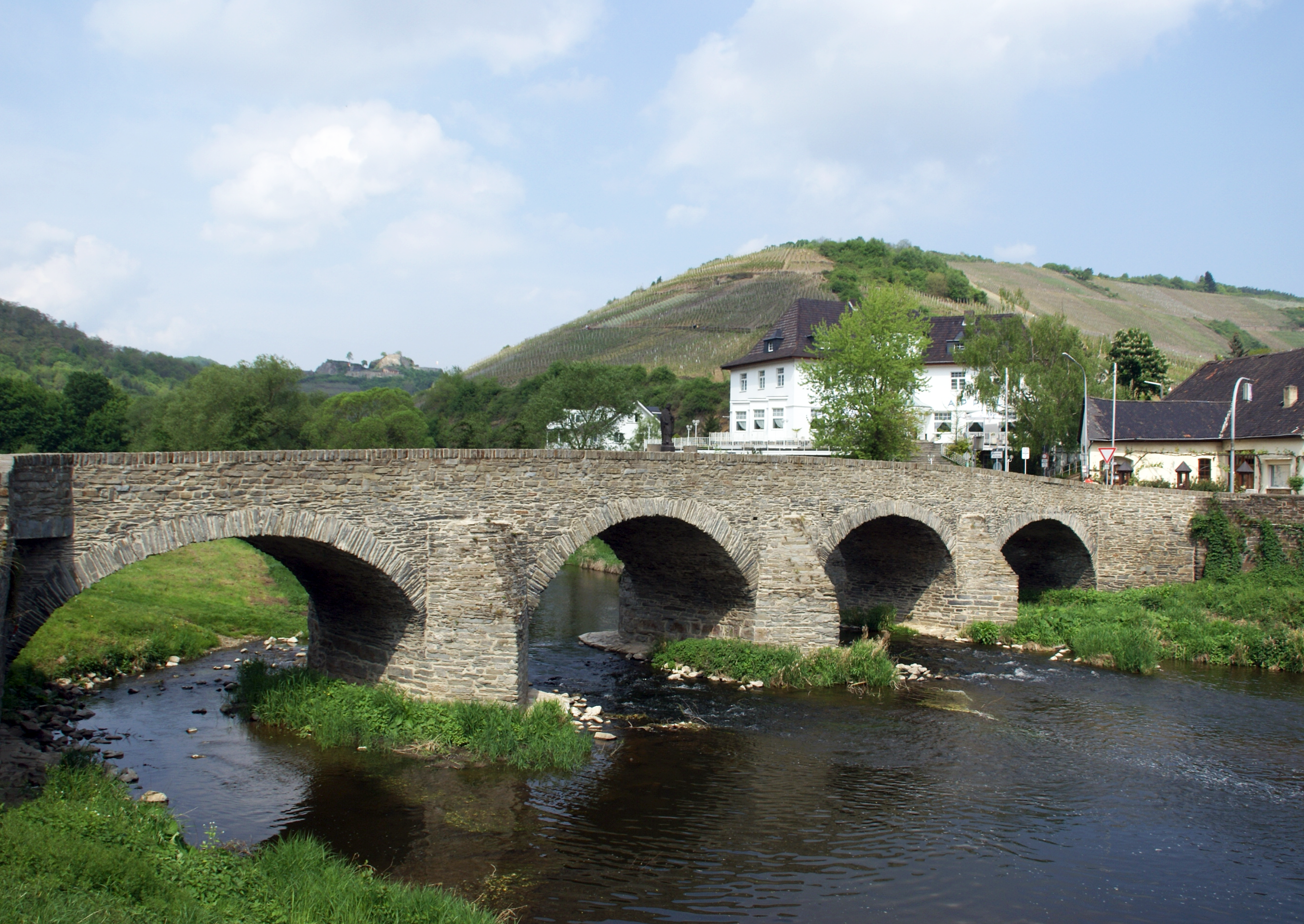 Bridge over the River Ahr in Rech